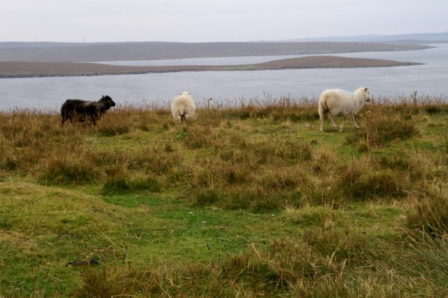 Sheeps at Yell with Bigga and Shetland Mainland in the background, Shetland, Scotland